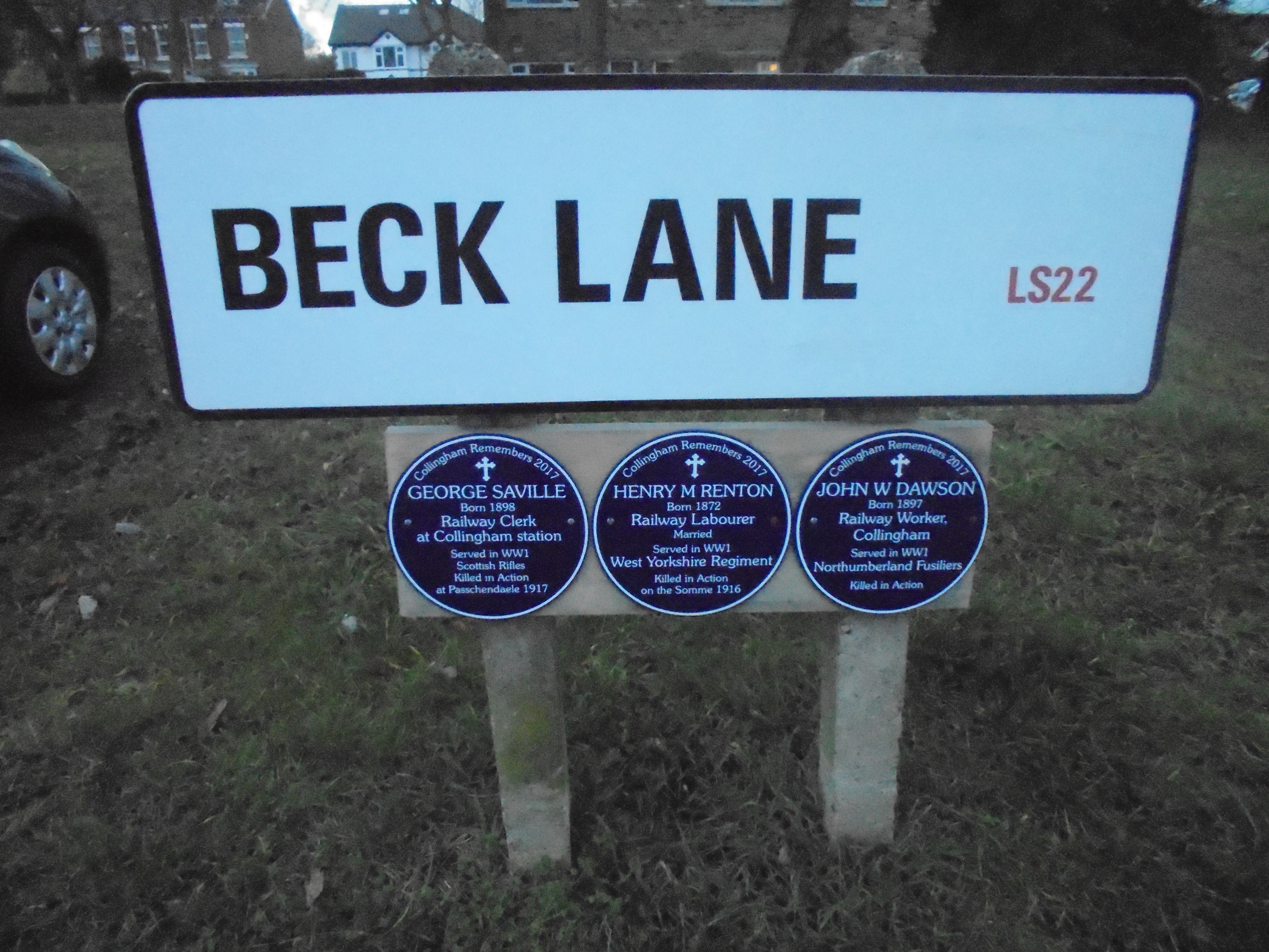 Collingham Remembers 2017 plaque, Beck Lane, Collingham, West Yorkshire. Taken on the afternoon of Friday the 28th of December 2018.